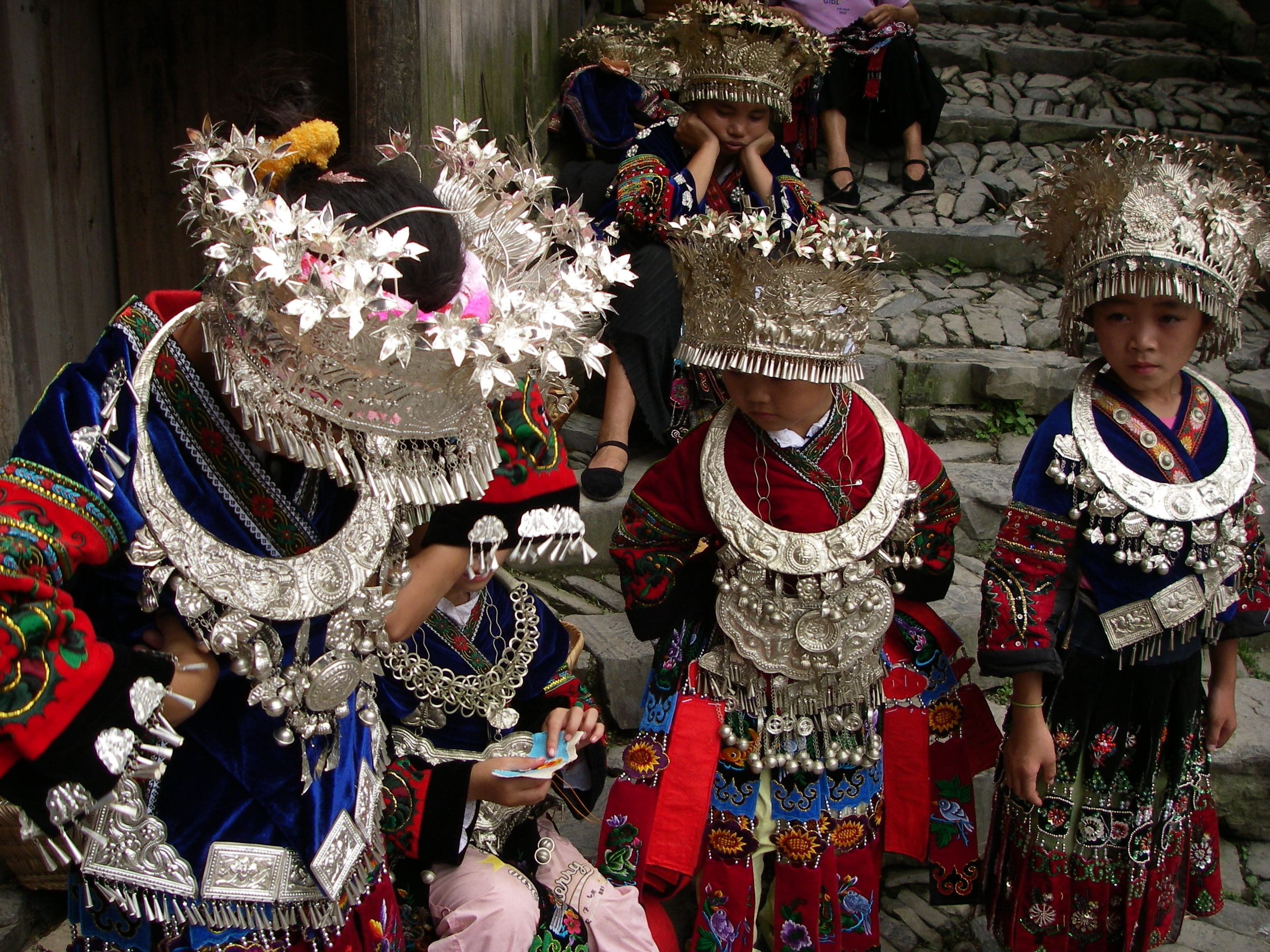 Young Lang De girls awaiting their turn to perform a traditional welcoming ceremony for a bus of tourists. The amount of silver worn is considerable although pieces that look very heavy such as; the necklace, crown and tear-drop shaped baubles are hollow. Other hanging ornamentation on the head-dress and body is flattened sheet silver. In contrast, the clothing is a heavy fabric, heavily embroidered; and therefore of considerable weight. Note the girl, second from left is checking an allocation of vouchers given to the village by the tour party. The vouchers value varies depending on the number of performers and the needs of the commune. Girls of this age receive around ¥2 per performance as of mid 2007. More senior villagers would receive comparatively more.